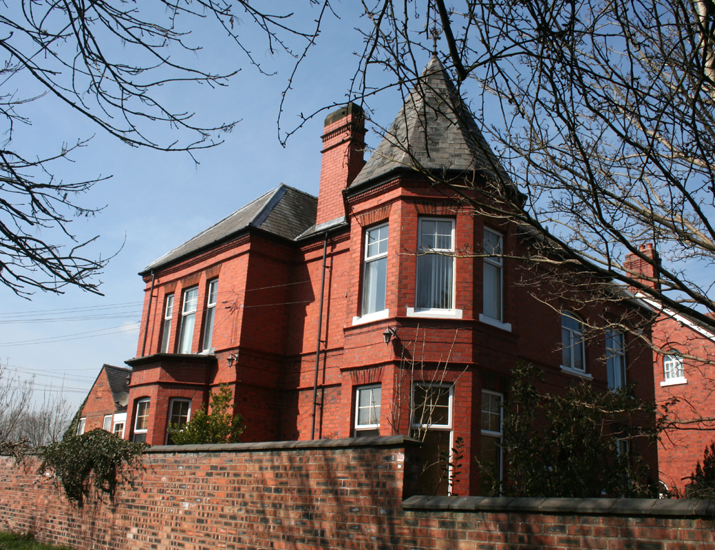 Lindum House and Schoolroom, Wellington Road, Nantwich, Cheshire